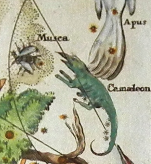 Constellation Camaeleon as depicted in Johann Doppelmayr's Atlas Coelestis (Plate 19, Southern Celestial Hemisphere). I own this map and I took this photograph.